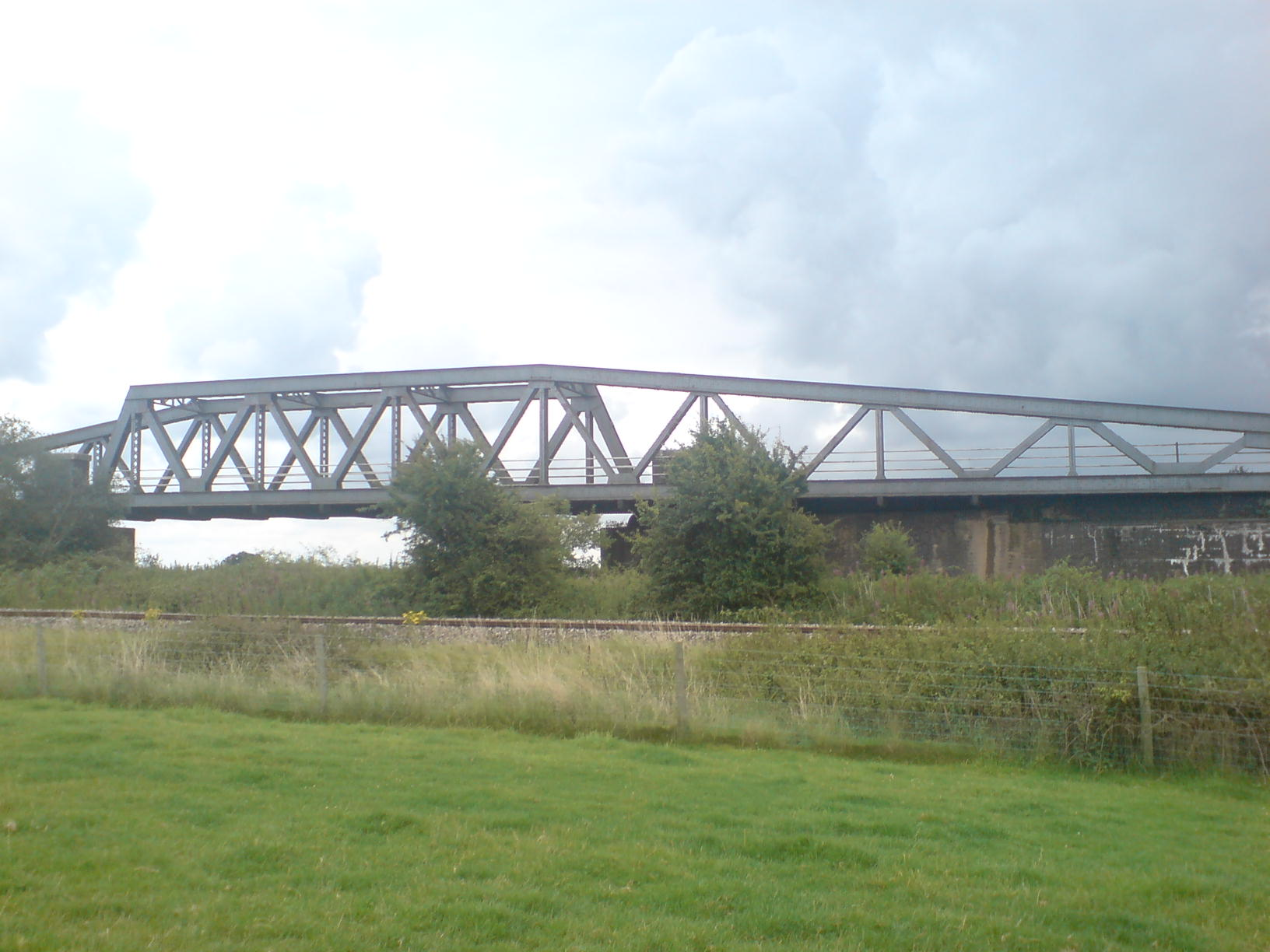 A picture of the flyover at Cogload Junction.